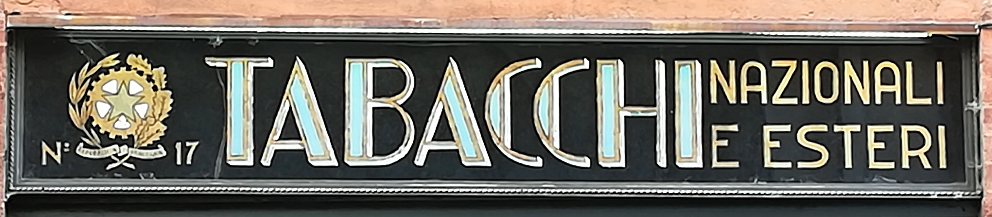 tobacco shop sign in Italy